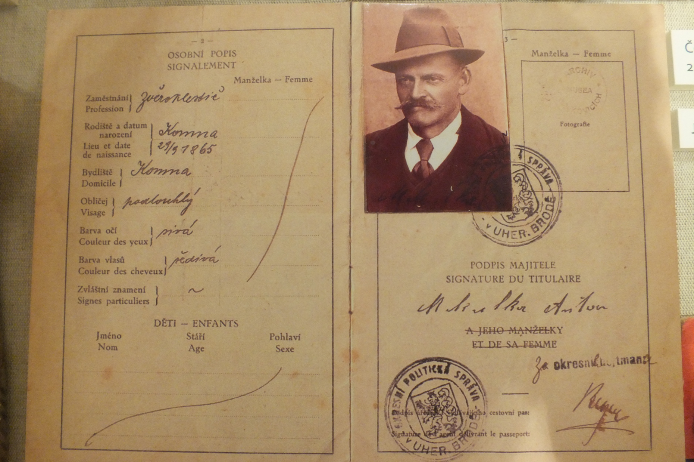 Museum of neutering in Komňa, No. 6. The identification document of a person, who practiced neutering as his job. Neutering was a common job in the village in the past. Česky: Komňa č. p. 6, obydlí zvěrokleštiče, dnes muzeum. Osobní dokument zvěrokleštiče. Zvěrokleštičství bývalo ve vsi častým řemeslem.